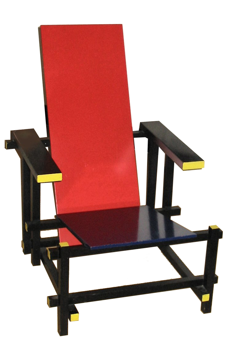 Cassina Red-Blue Chair Picture of a chair designed by Gerrit Rietveld.